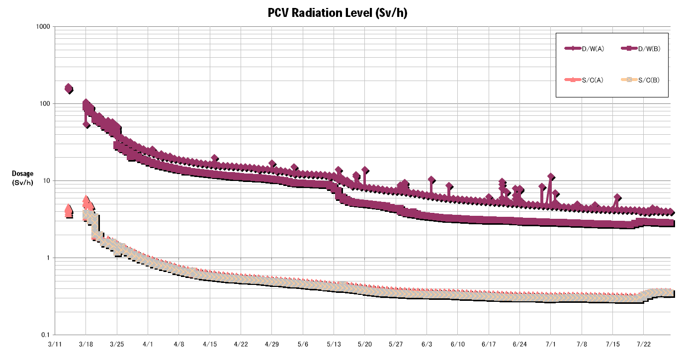 Fukushima I Nuclear Power Statation, Unit 3 containment radiation data. Data source: Tepco.